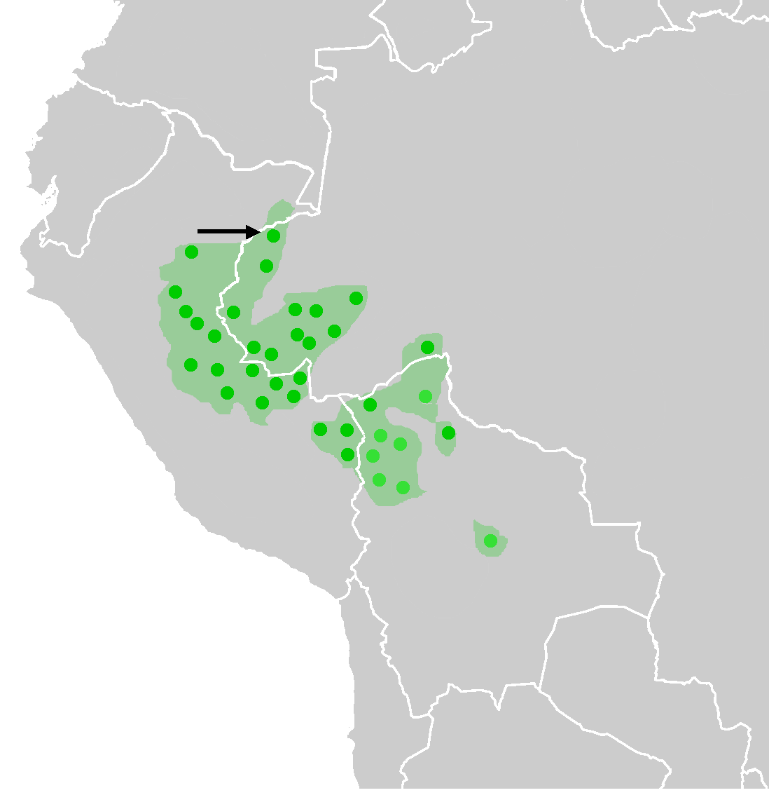 Matses-Mayoruna language (pointed with an arrow) and the other pano-tacanan languages (other dots).